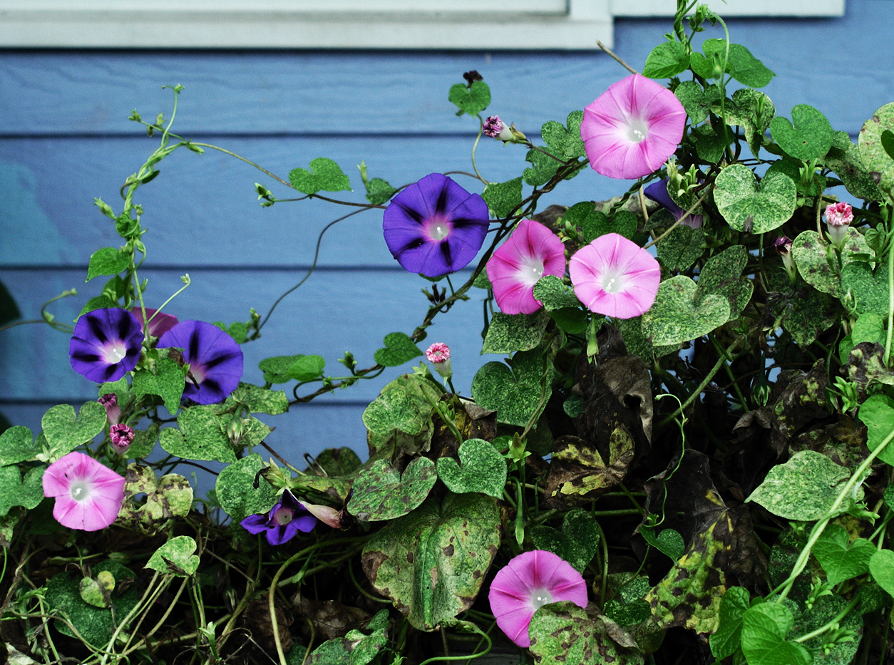 Morning Glory Flowers